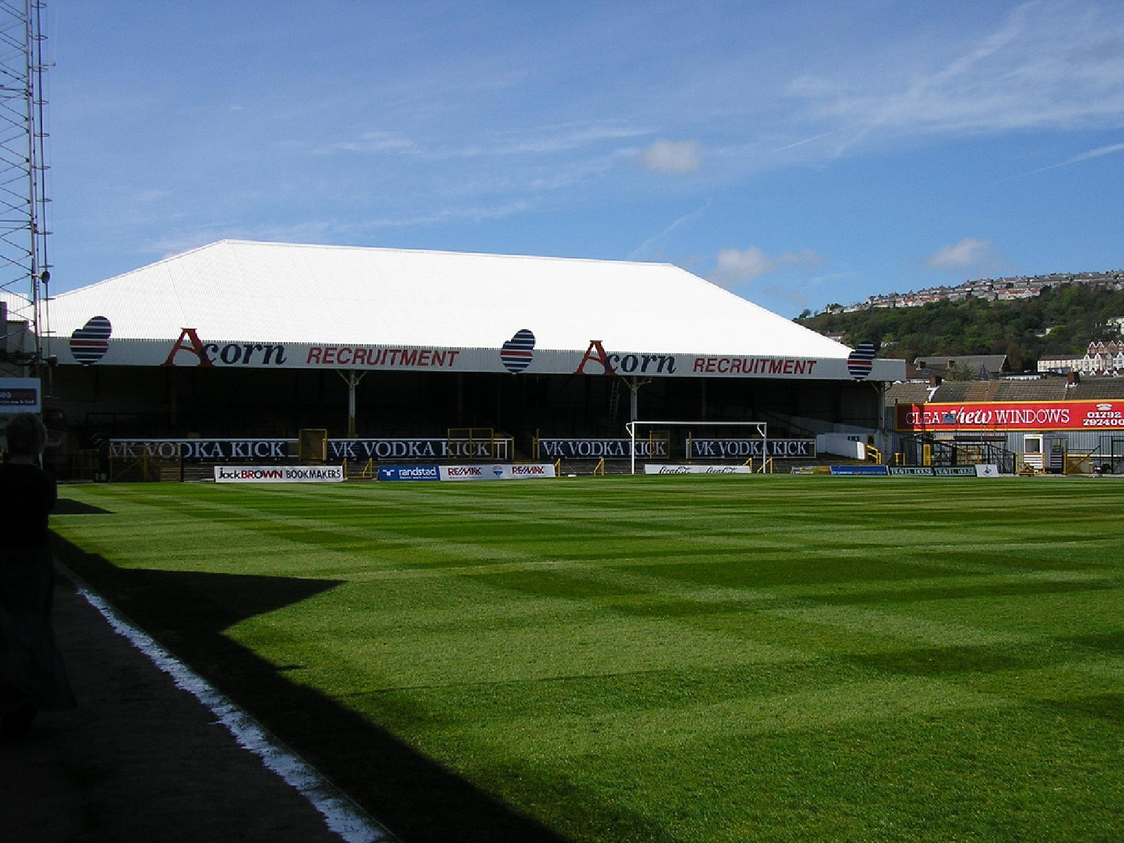 The West Terrace of the Vetch Field